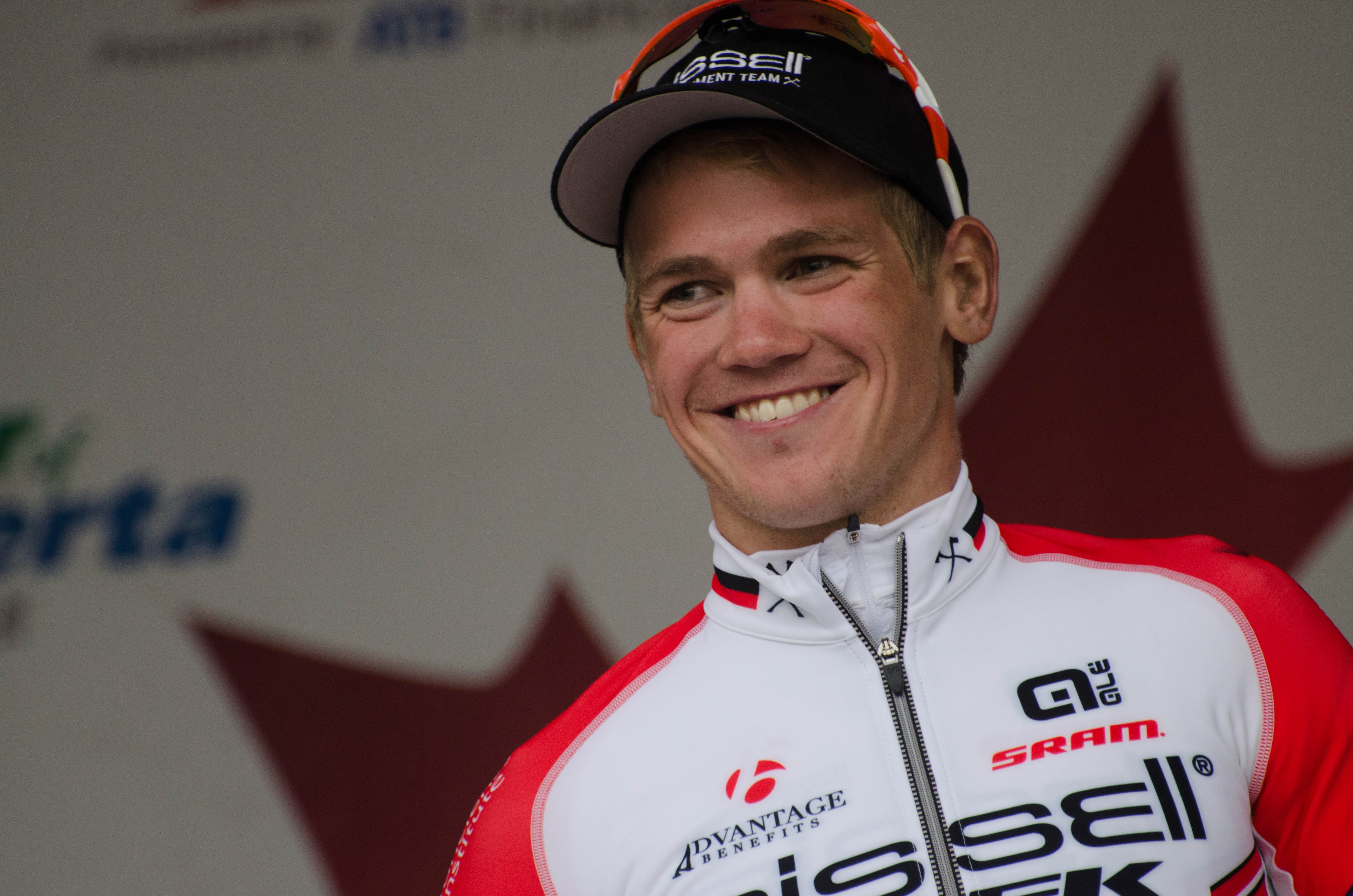 Ruben Zepuntke at stage 5 of the 2014 Tour of Alberta